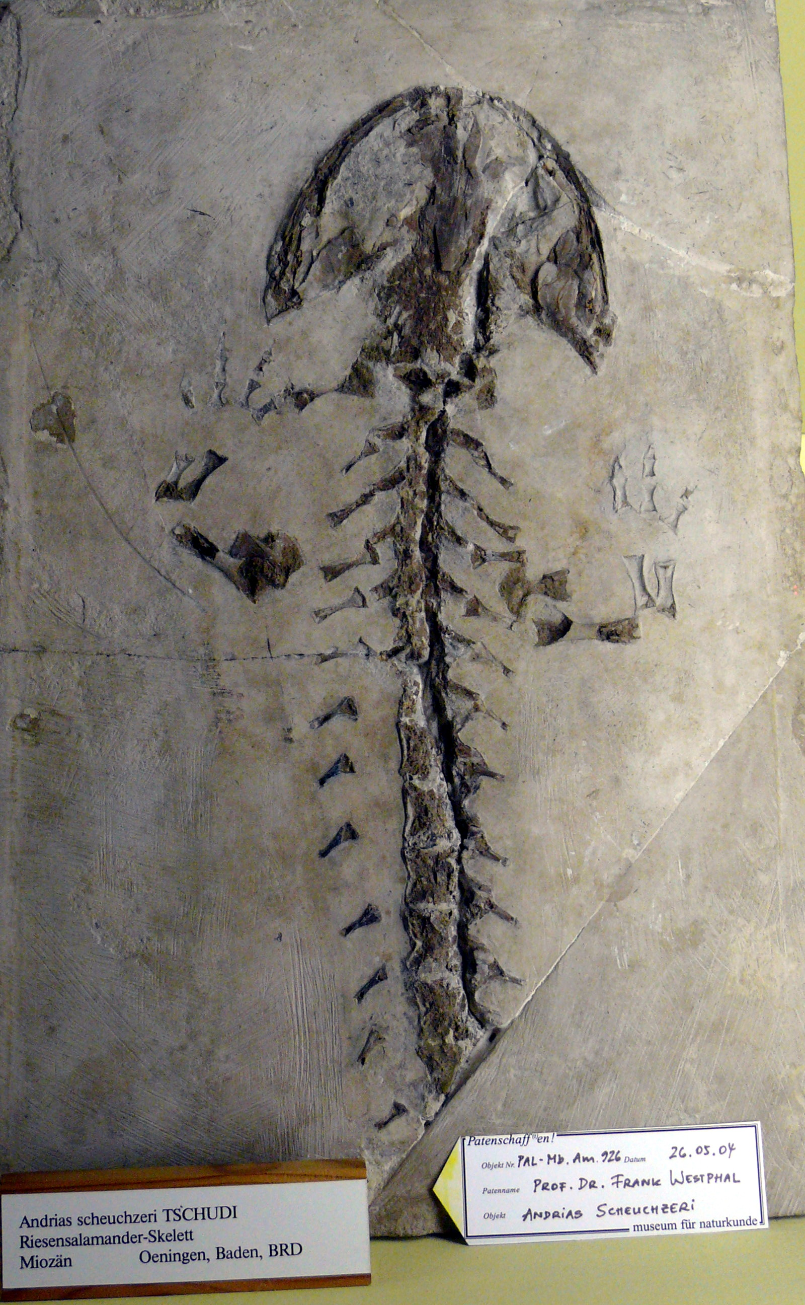 Andrias schleuchzeri Tschudi, from the Miocene of Oeningen, Baden, Germany